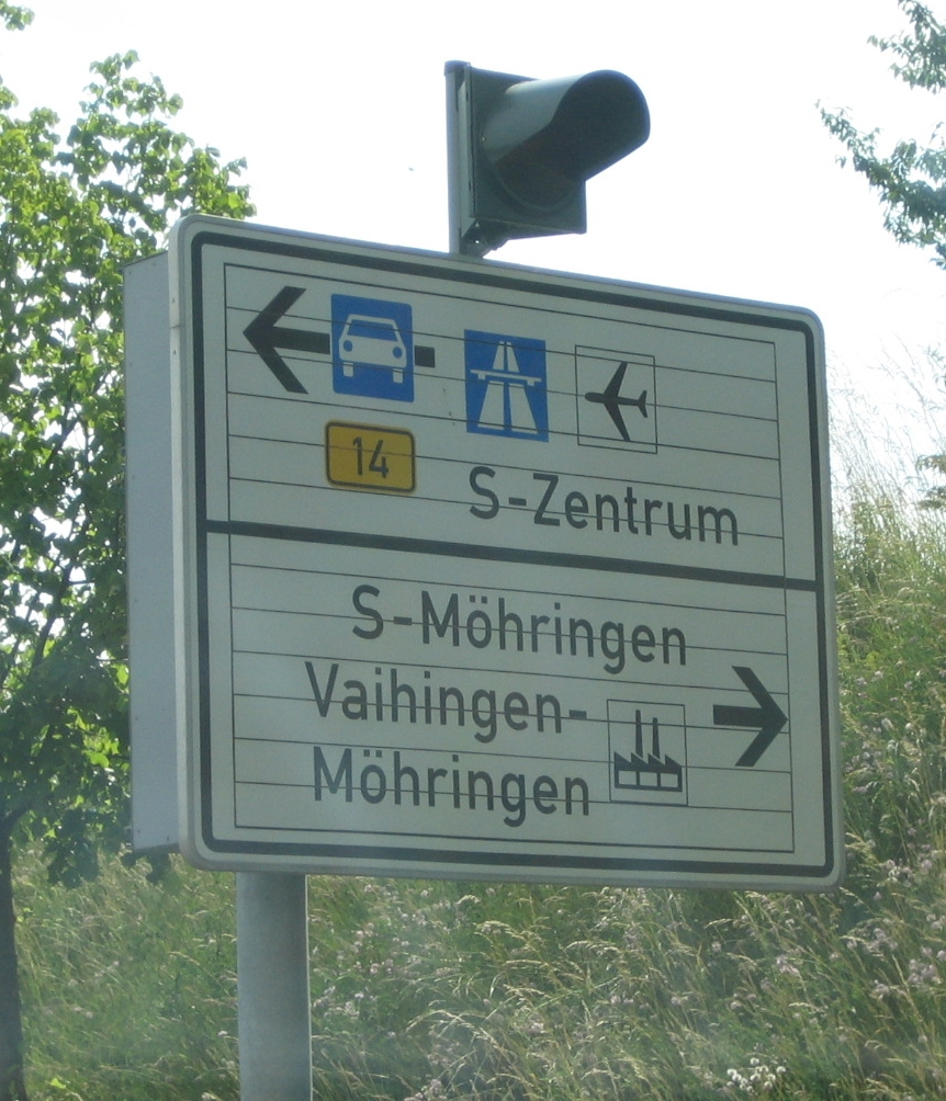 Variable traffic sign installation in Stuttgart-Vaihingen, Germany near industrial park "Step"